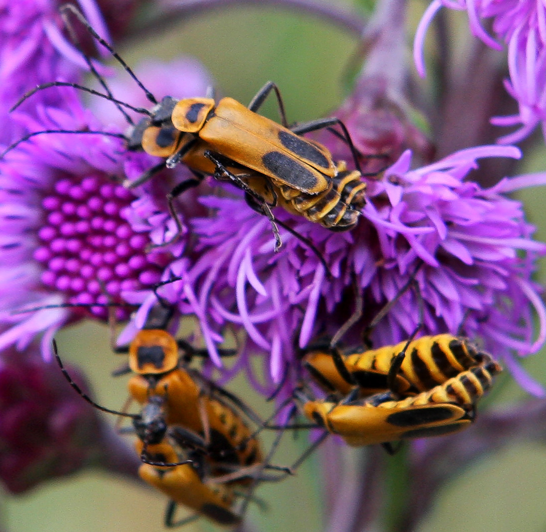 Self made image of beetles mating while on a Liatris plant.